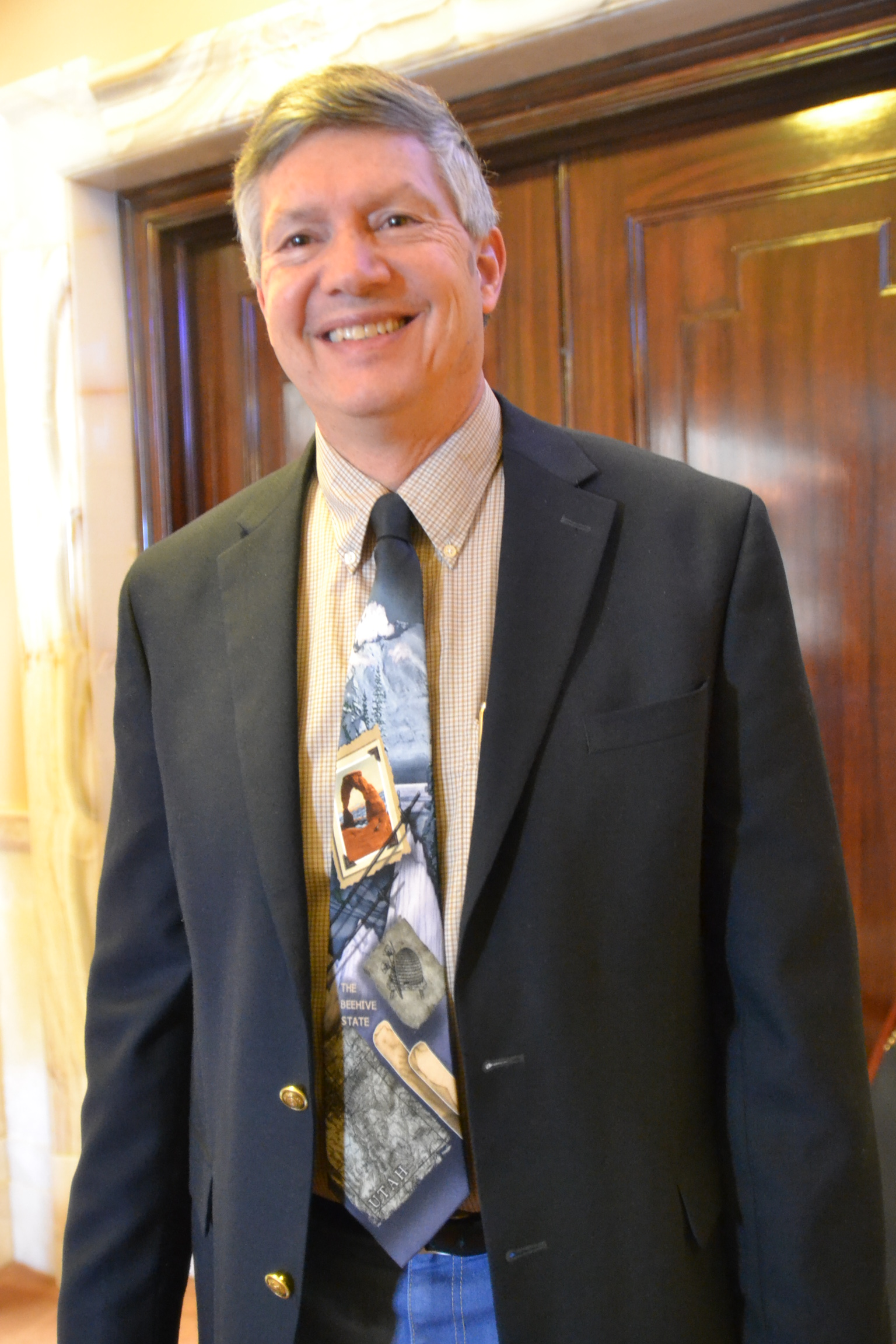 Senator Wayne Harper